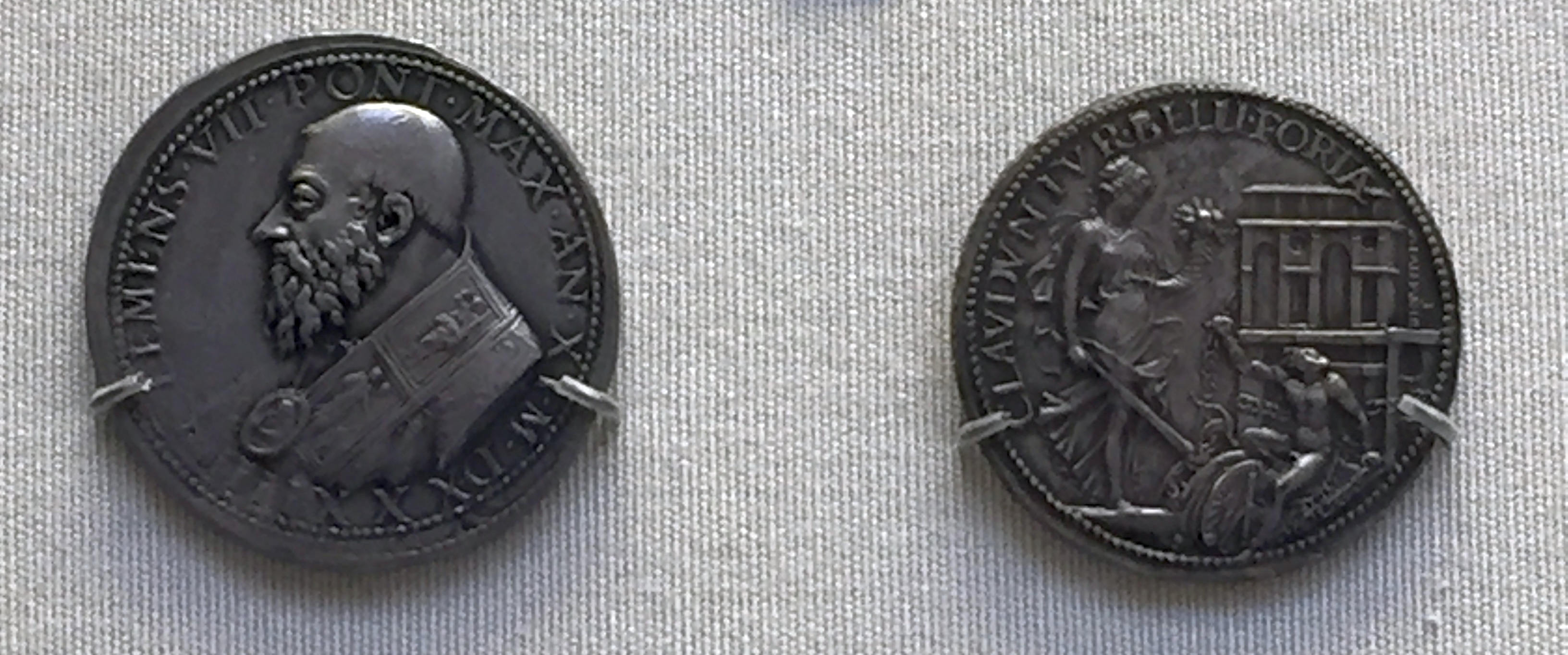 Silver medal minted by pope Clemens VII to celebrate the peace treaty signed with emperor Charles V in 1529. British Museum, London, UK.